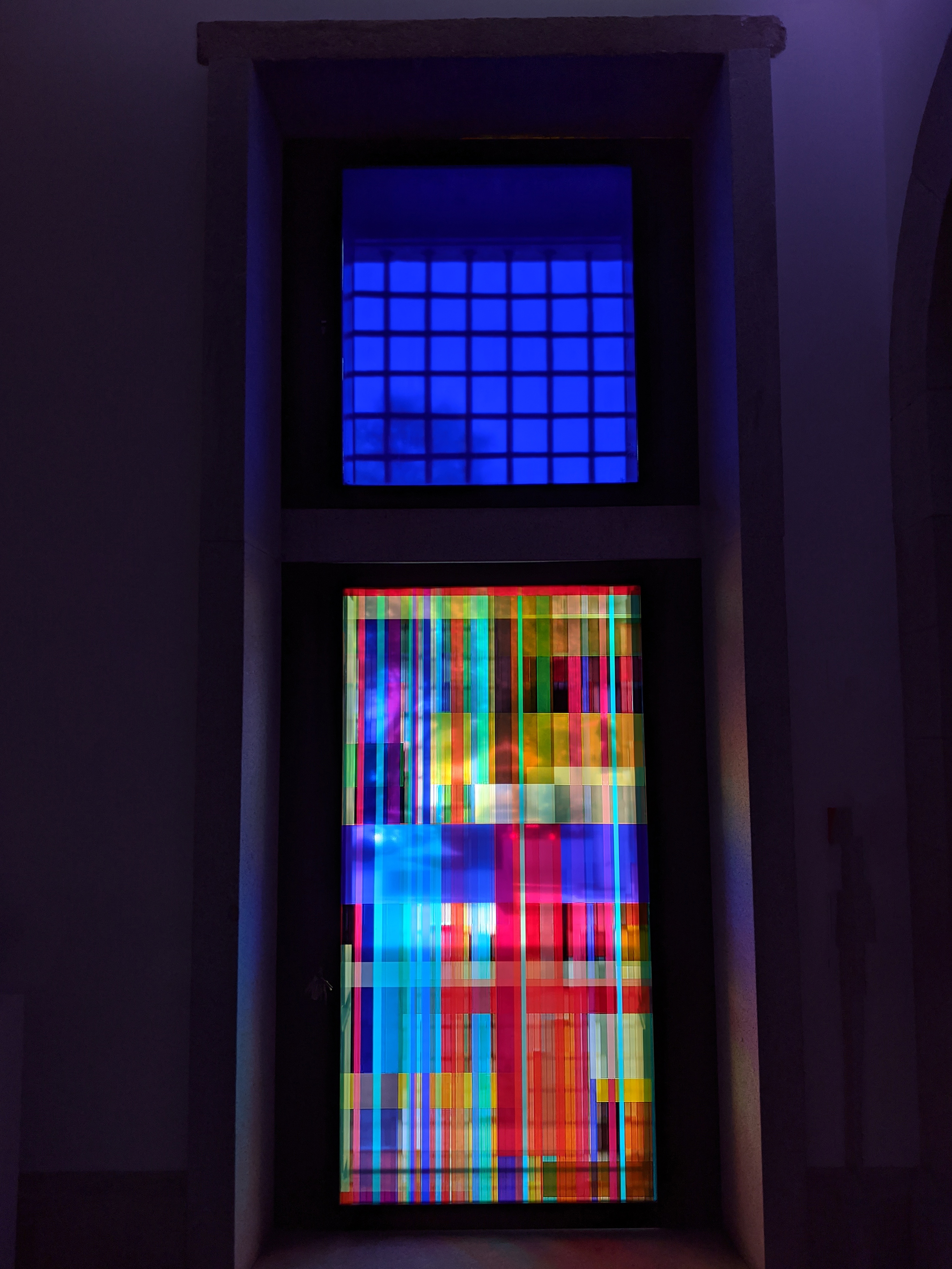 Image from the exhibition.